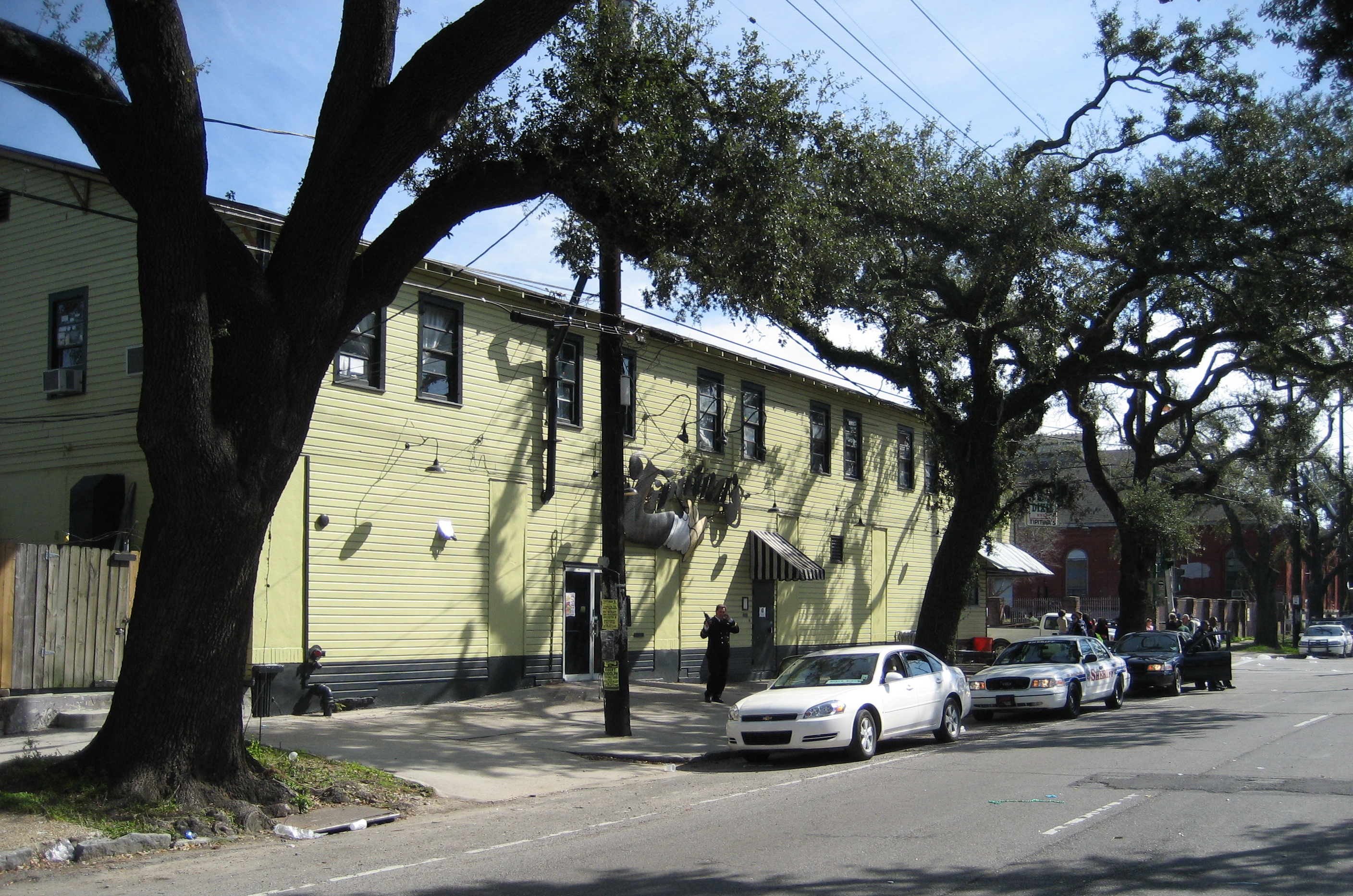 Napoleon Avenue, Uptown New Orleans. Famous music club "Tipitina's".